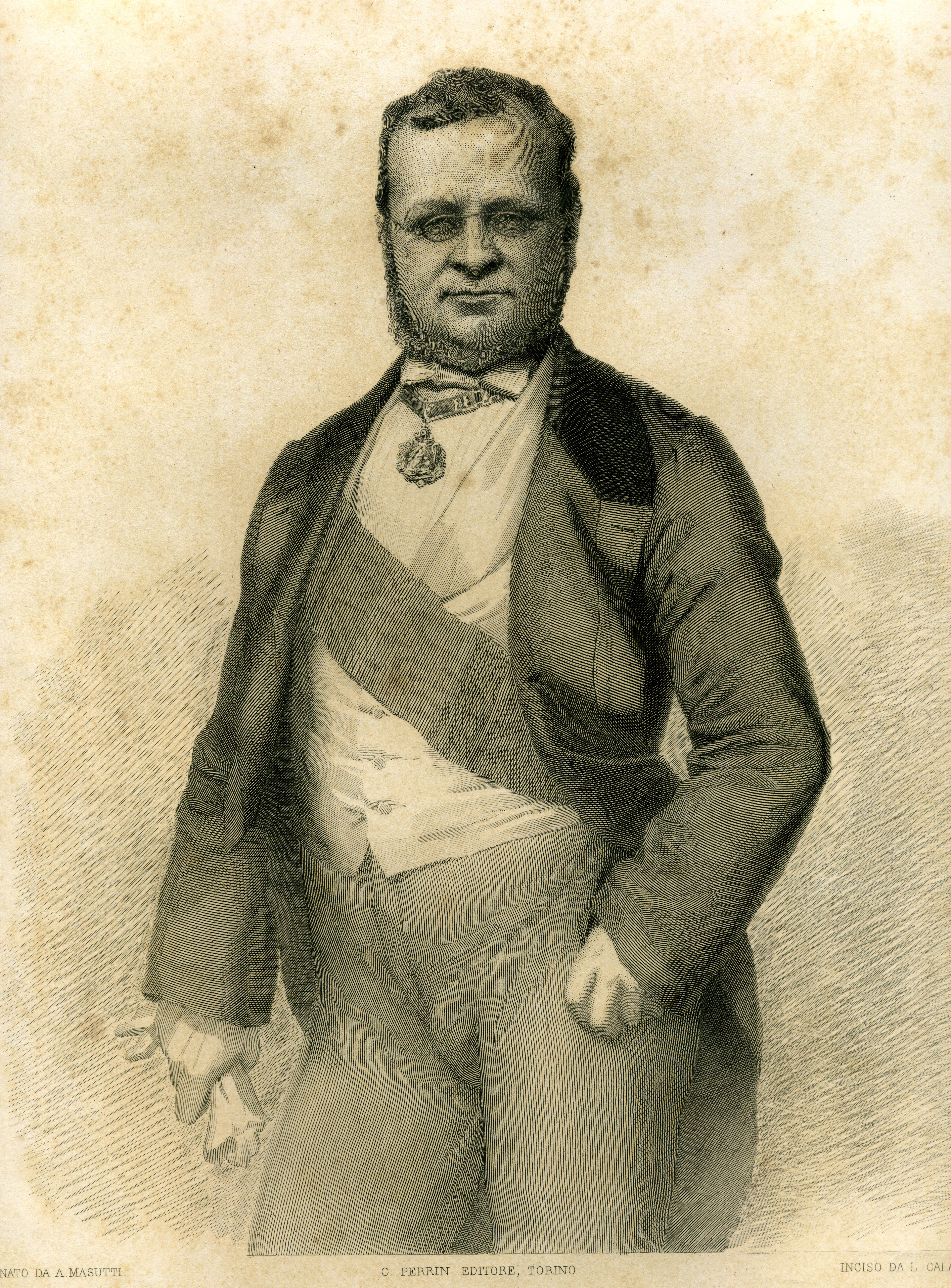 Portrait of Camillo Benso, Conte di Cavour, circa 1860. Scanned from the original engraving